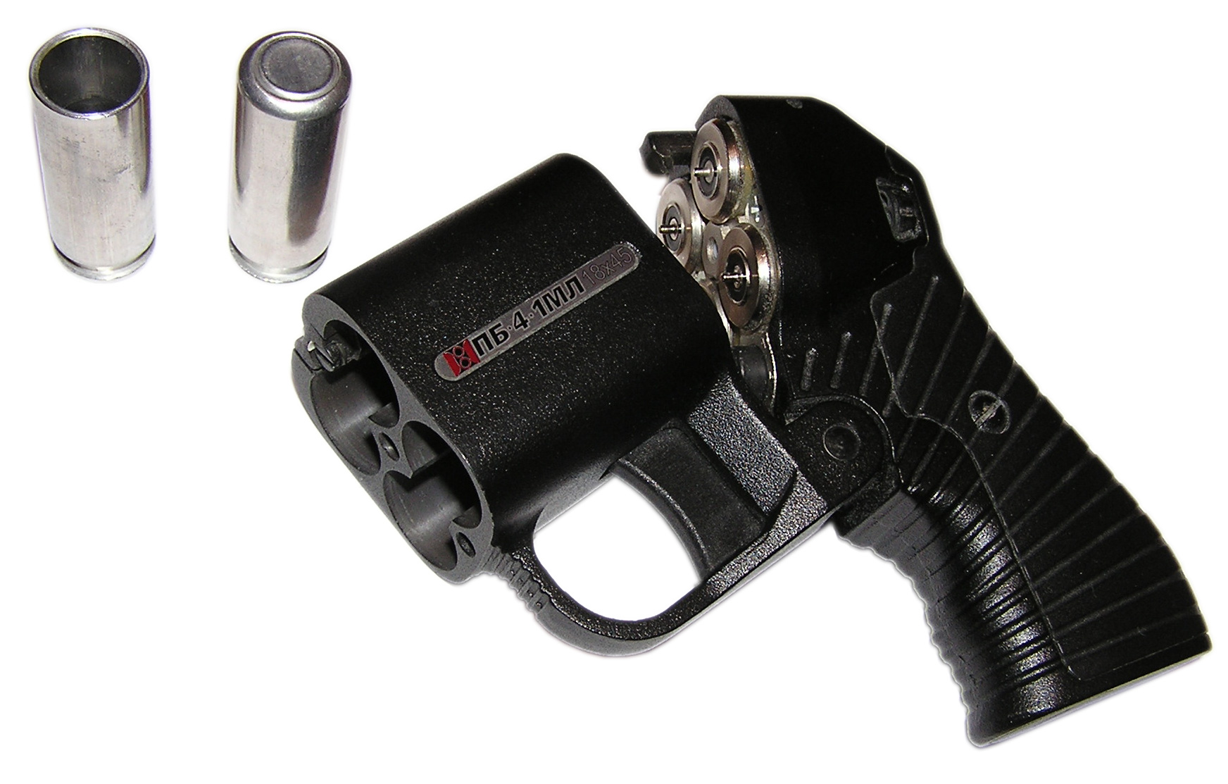 Russian non-lethal weapon «Wasp» and two 18×45 rounds: traumatic and flash round